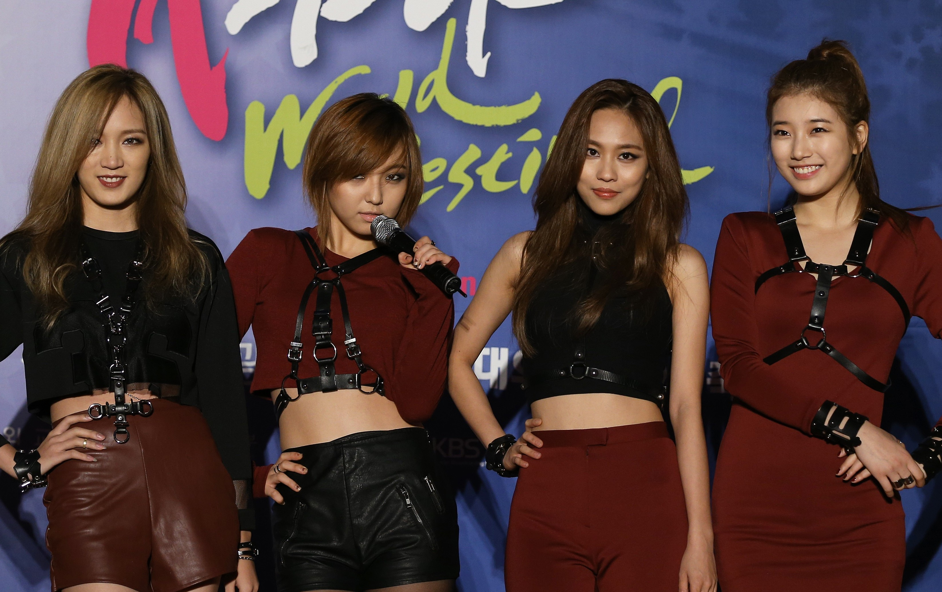 2013 K-POP World Festival in Changwon-si, Gyengsangnam-do October 20, 2013